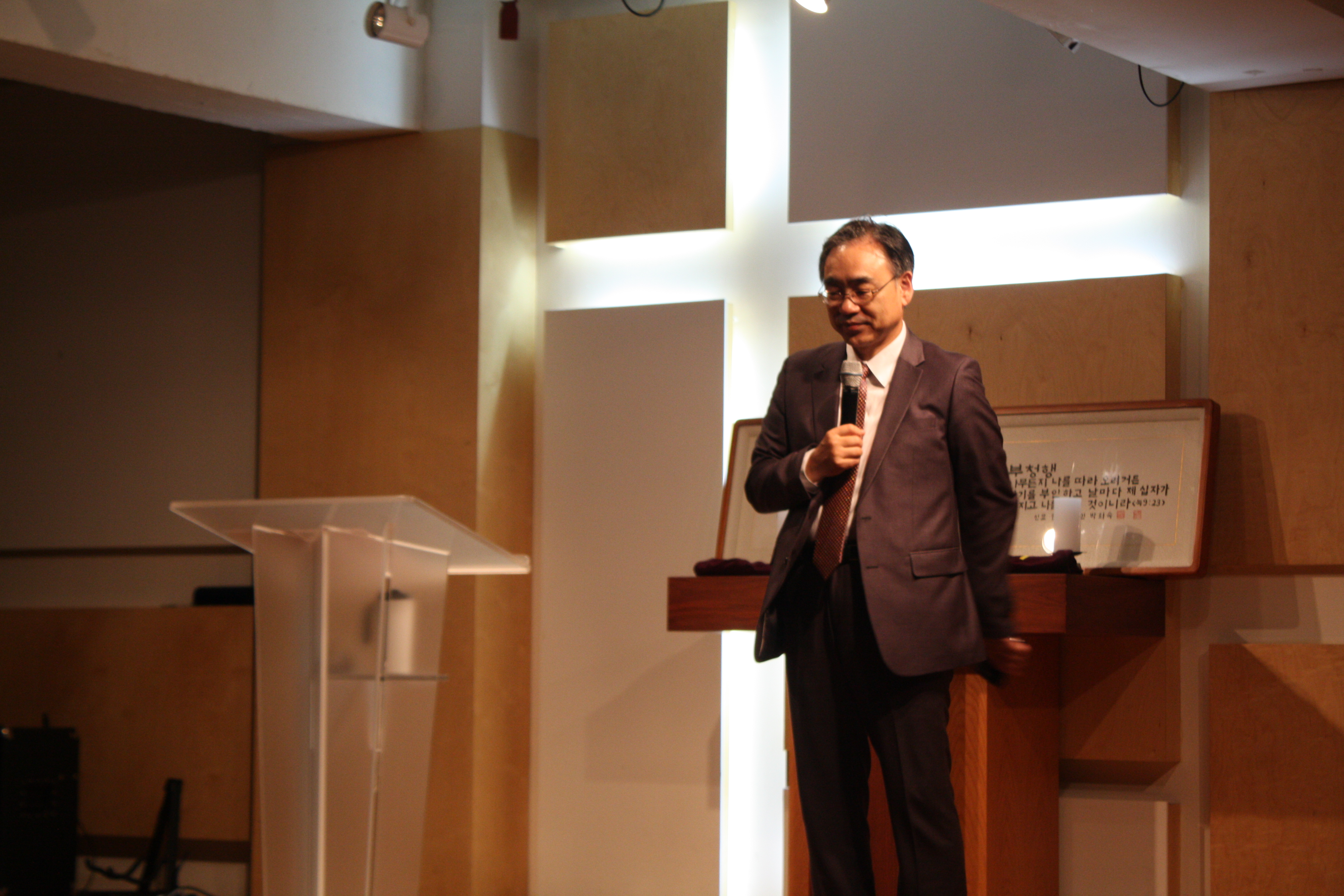 Pastor Ha Jeong-wan, In the Dream Community Church.